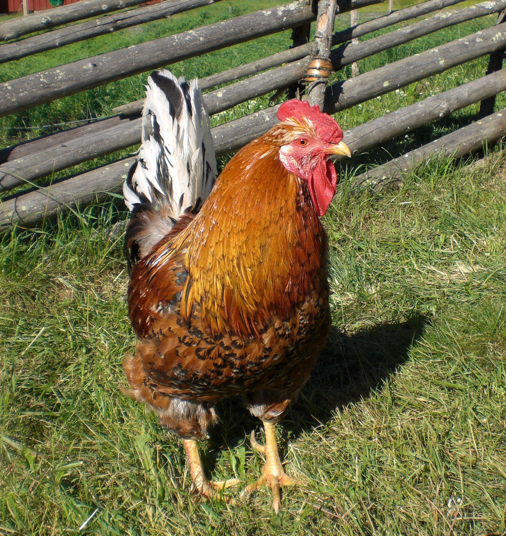 Skånsk blommehöna. Old breed of chickens from Skåne, Sweden. Photo taken at Gammlia, Umeå, Sweden.